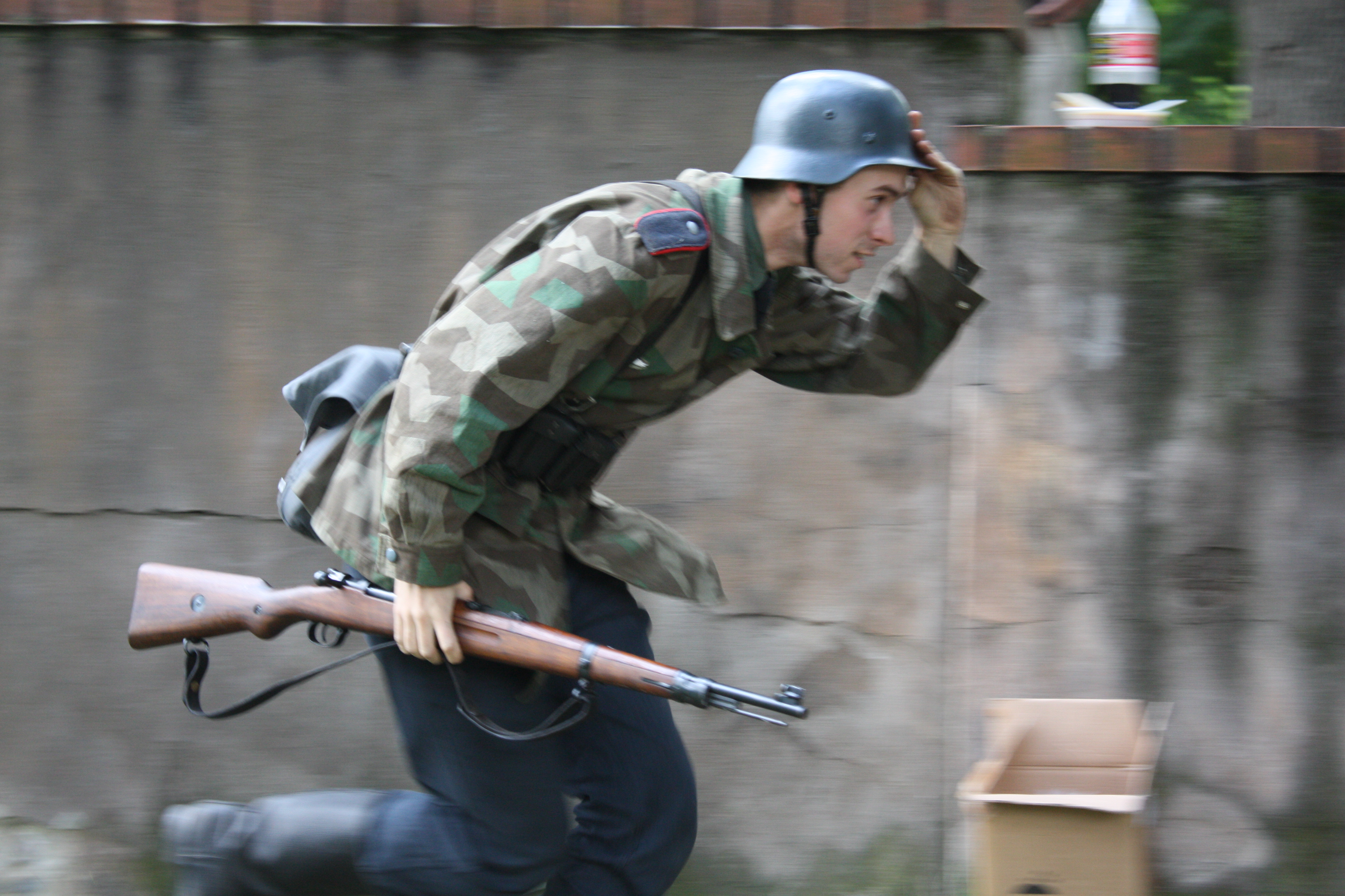 Warsaw Uprising reenactments - Mokotów'44